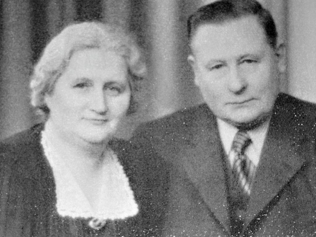 Picture from the 1930's showing swedish couple Annie and David Petterson, founder of Syfabriken Special, later known as global shirt brand Eton Shirts.